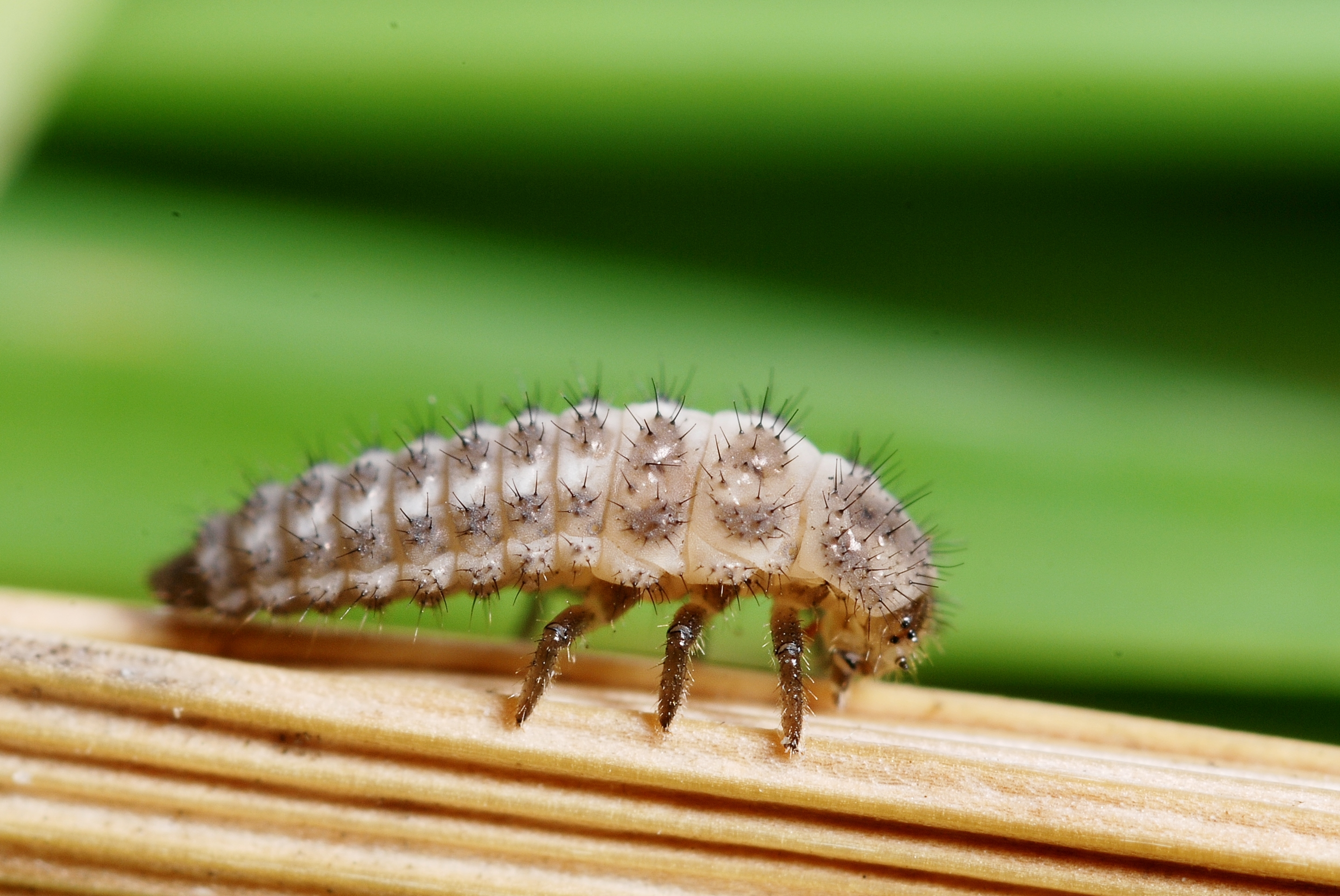 Tytthaspis sedecimpunctata